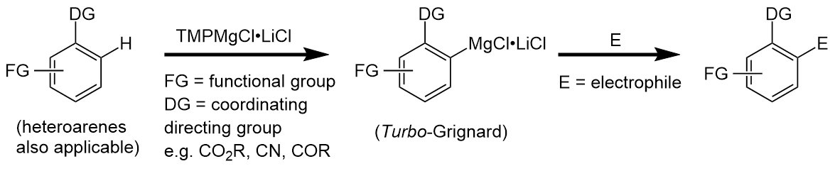 Example Turbo Hauser Base Rktn General